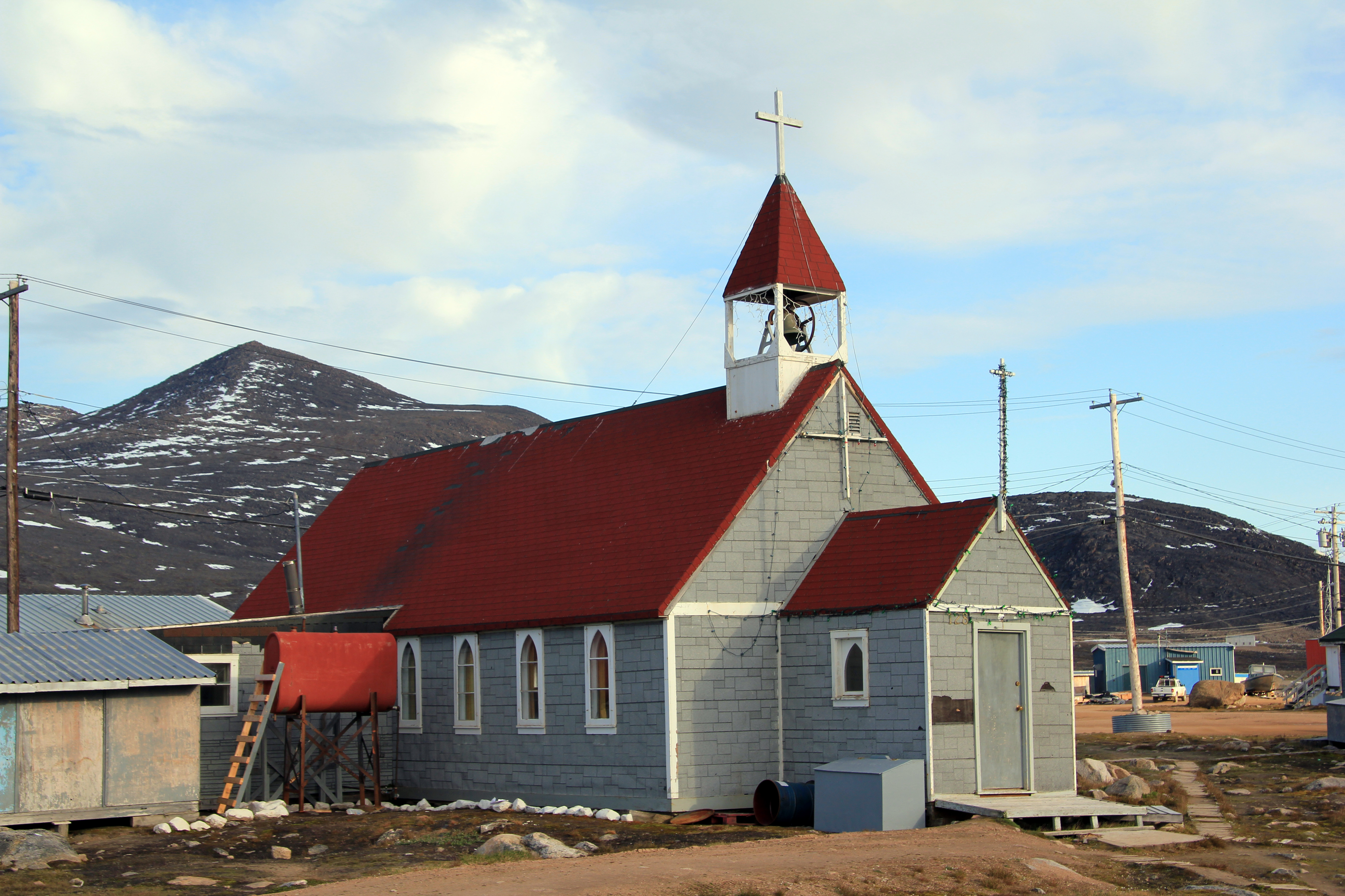 Anglican Church